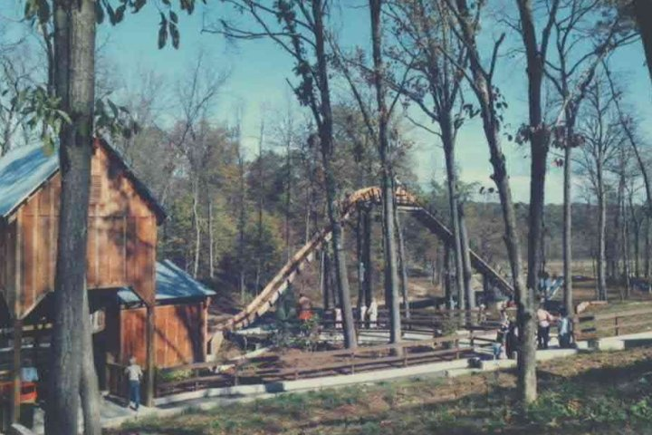 An early picture of Frightful Falls log flume